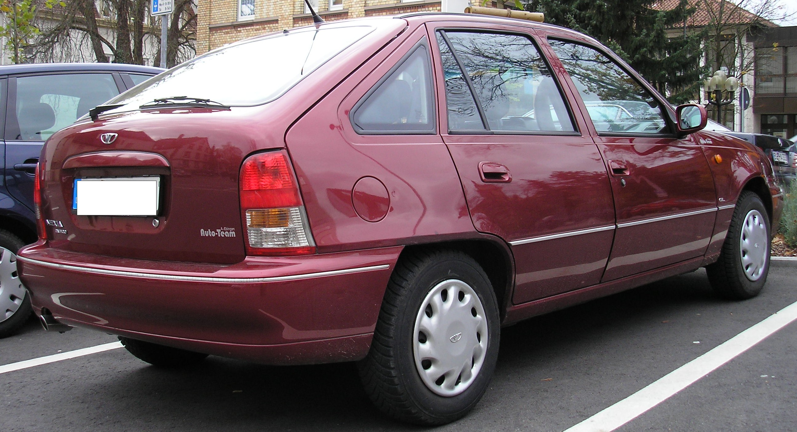 Daewoo Nexia 5door hatchback